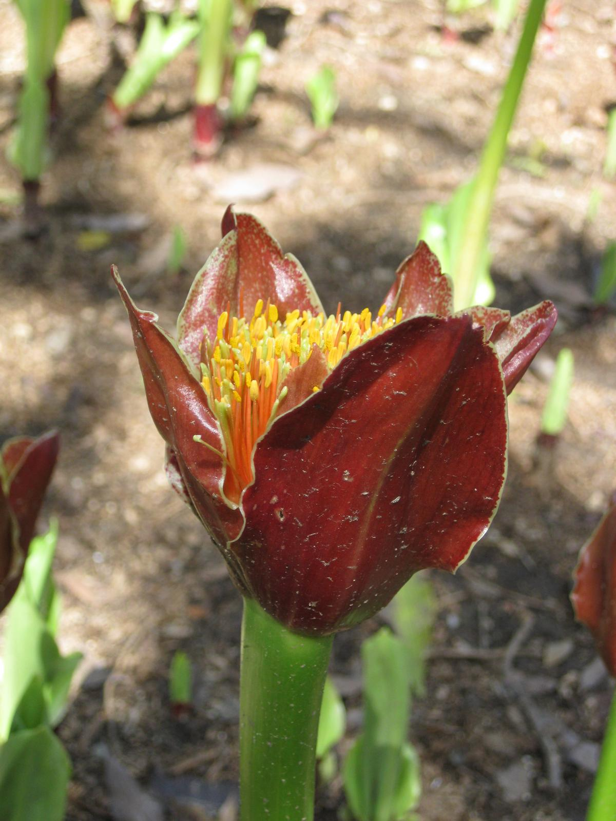 Photographed at Huntington Gardens (Los Angeles, California) in March